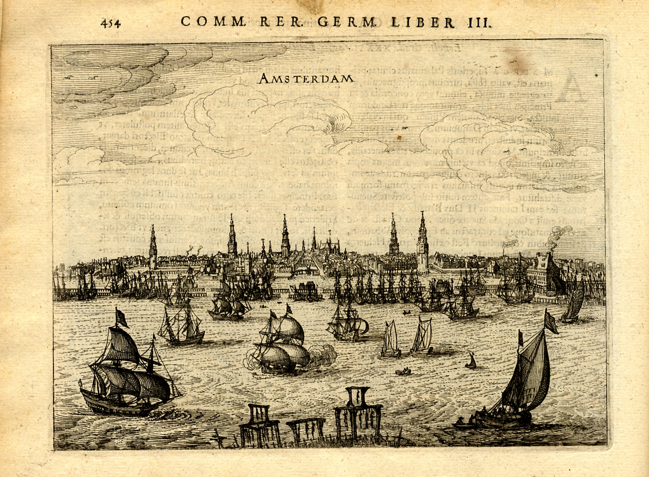 Amsterdam from Commentariorum Rerum Germanicarum by Petrus Bertius (1616)